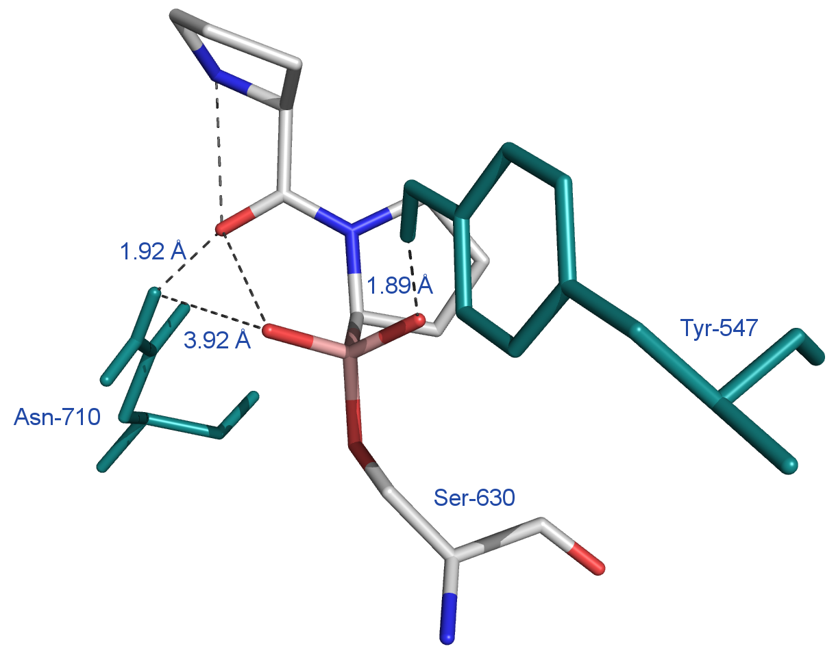 Structure detail of a boroPro ligand in dipeptidyl peptidase IV (CD 26)